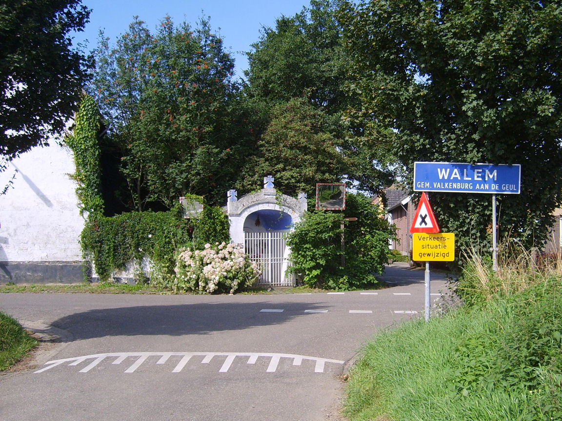 Village limit sign of Walem, a hamlet in southern Limburg, Netherlands